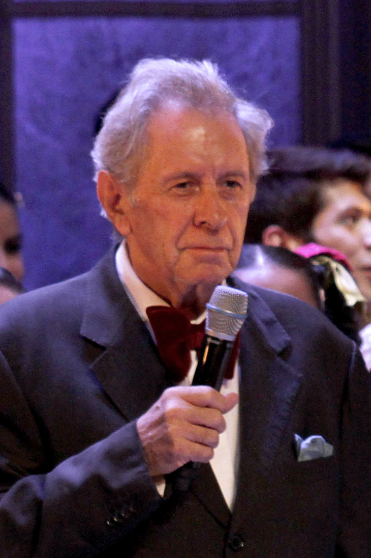 Conductor Enrique Bátiz receives an award as Living Cultural Heritage in Mexico City. Sunday, 15 December 2019. Picture by Maritza Rios / Secretaria de Cultura de la Ciudad de Mexico.